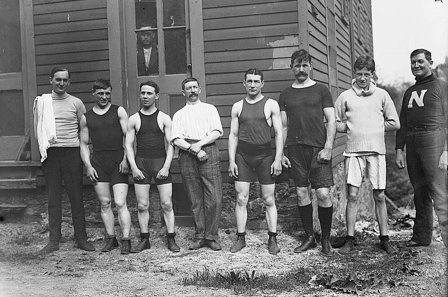 Bain News Service, publisher. British amateur boxers visiting the United States in 1911: Hayes, the trainer; Reuben Charles Warnes; W. W. Allen; secretary Calver; Alfred Spenceley; Frank Parks; Erskine; and Murray, the trainer circa 1911 This media file is in the public domain in the United States. This applies to U.S. works where the copyright has expired, often because its first publication occurred prior to January 1, 1925, and if not then due to lack of notice or renewal. See this page for further explanation. This image might not be in the public domain outside of the United States; this especially applies in the countries and areas that do not apply the rule of the shorter term for US works, such as Canada, Mainland China (not Hong Kong or Macao), Germany, Mexico, and Switzerland. The creator and year of publication are essential information and must be provided. See Wikipedia:Public domain and Wikipedia:Copyrights for more details. [between 1910 and 1915] 1 negative : glass ; 5 x 7 in. or smaller. Notes: Title from unverified data provided by the Bain News Service on the negatives or caption cards. Forms part of: George Grantham Bain Collection (Library of Congress). Subjects: Boxing' Format: Glass negatives. Repository: Library of Congress Prints and Photographs Division Washington, D.C. 20540 USA General information about the Bain Collection is available at Persistent URL: Call Number: LC-B2- 2200-16A